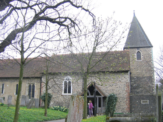 St Margaret's Church. St Margaret's is an ancient grade I listed church (parts predating the Norman conquest) with an particularly fine font and chancel.